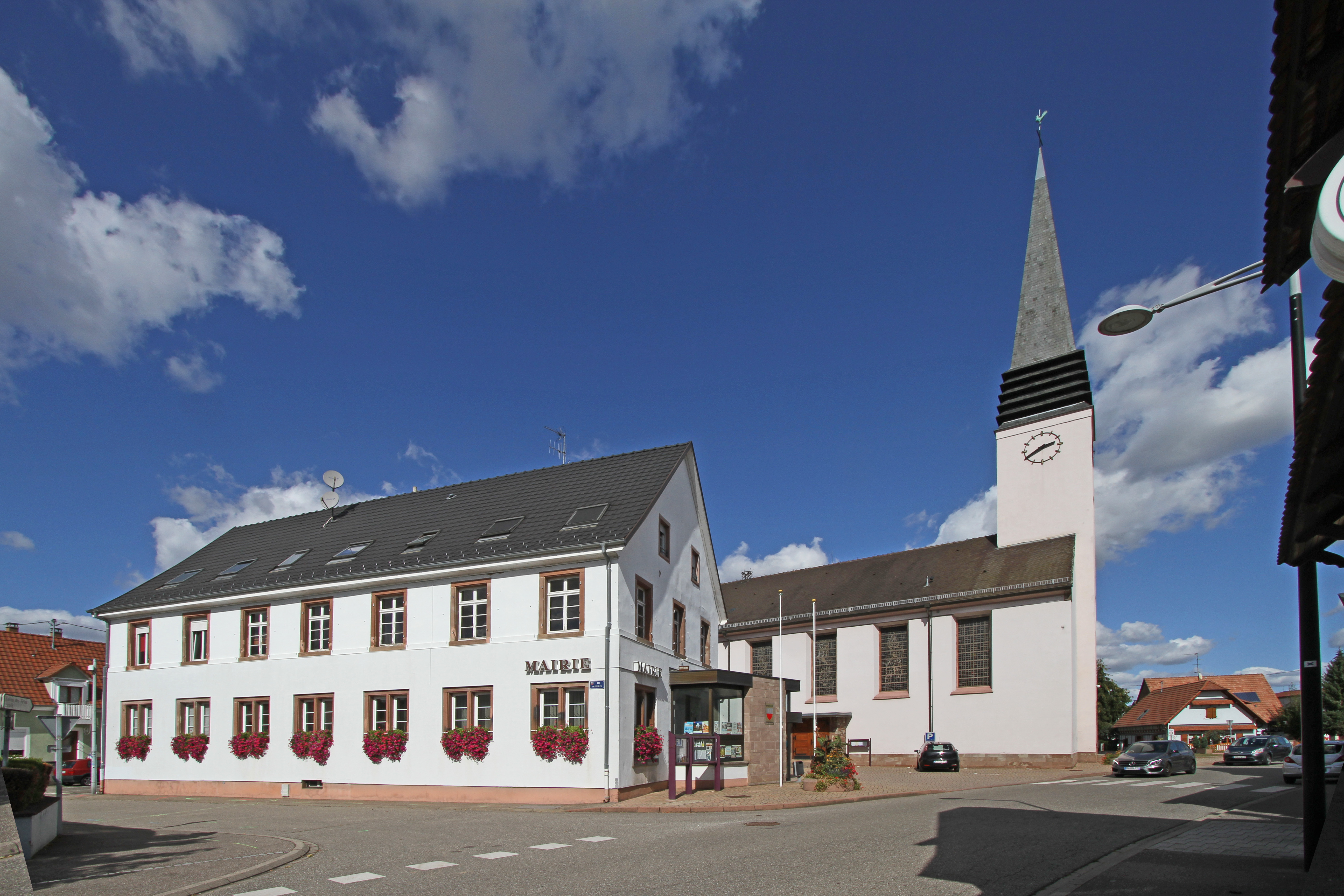 City hall and church of St. Wendelin in Rohrwiller.